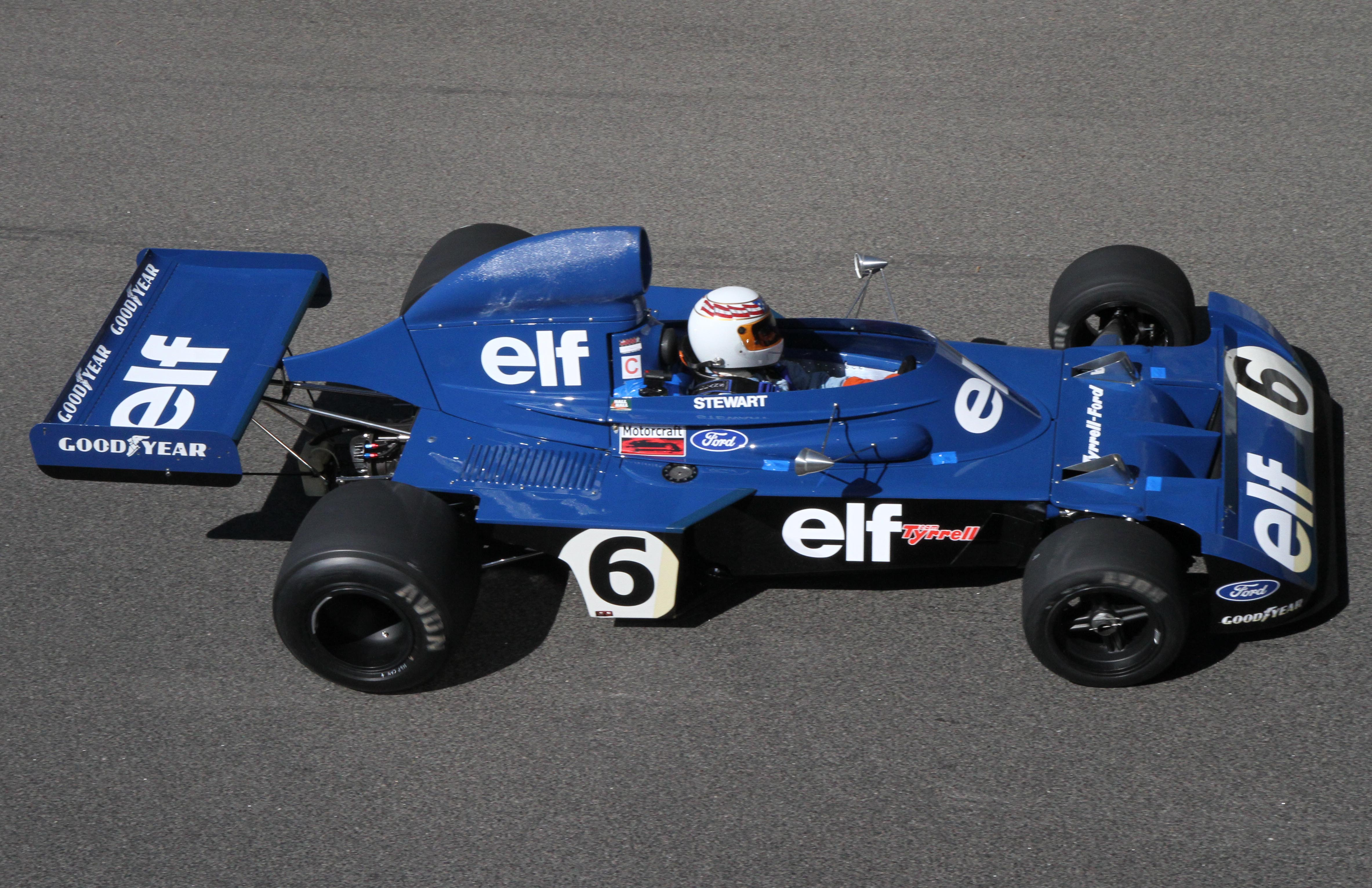 John DeLane aims his Tyrrell 006 for the apex of the second half of The Esses at Circuit Mont-Tremblant, during the 2010 Legends of Motorsport meeting.